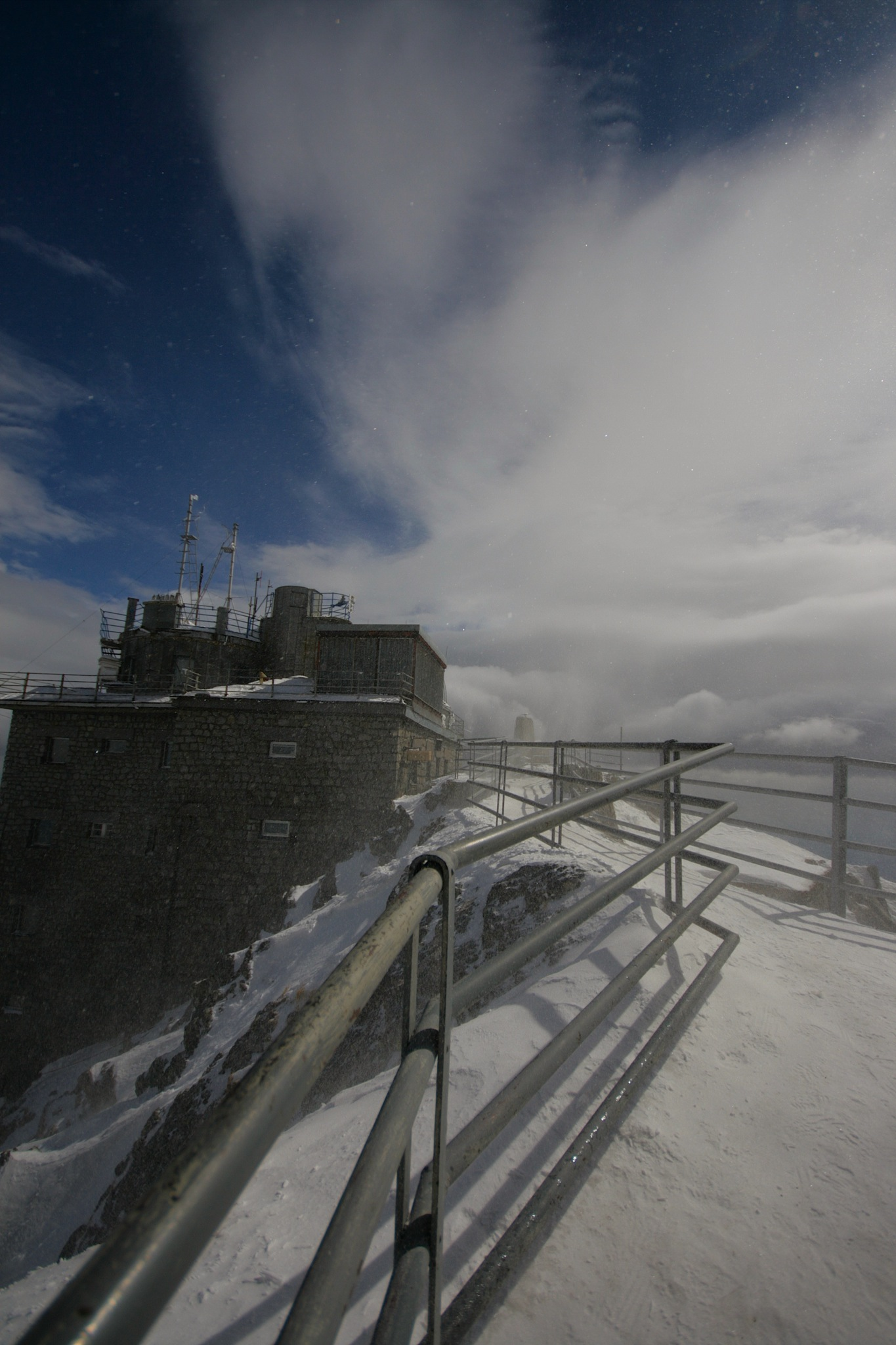 Picture of Lomnicky Stit in High Tatras, Slovakia